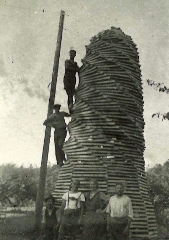 tower of staves in Gschwand (Upper Austria 1935)